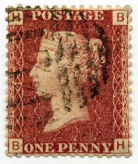 Scan of United Kingdom Penny Red, plate 148